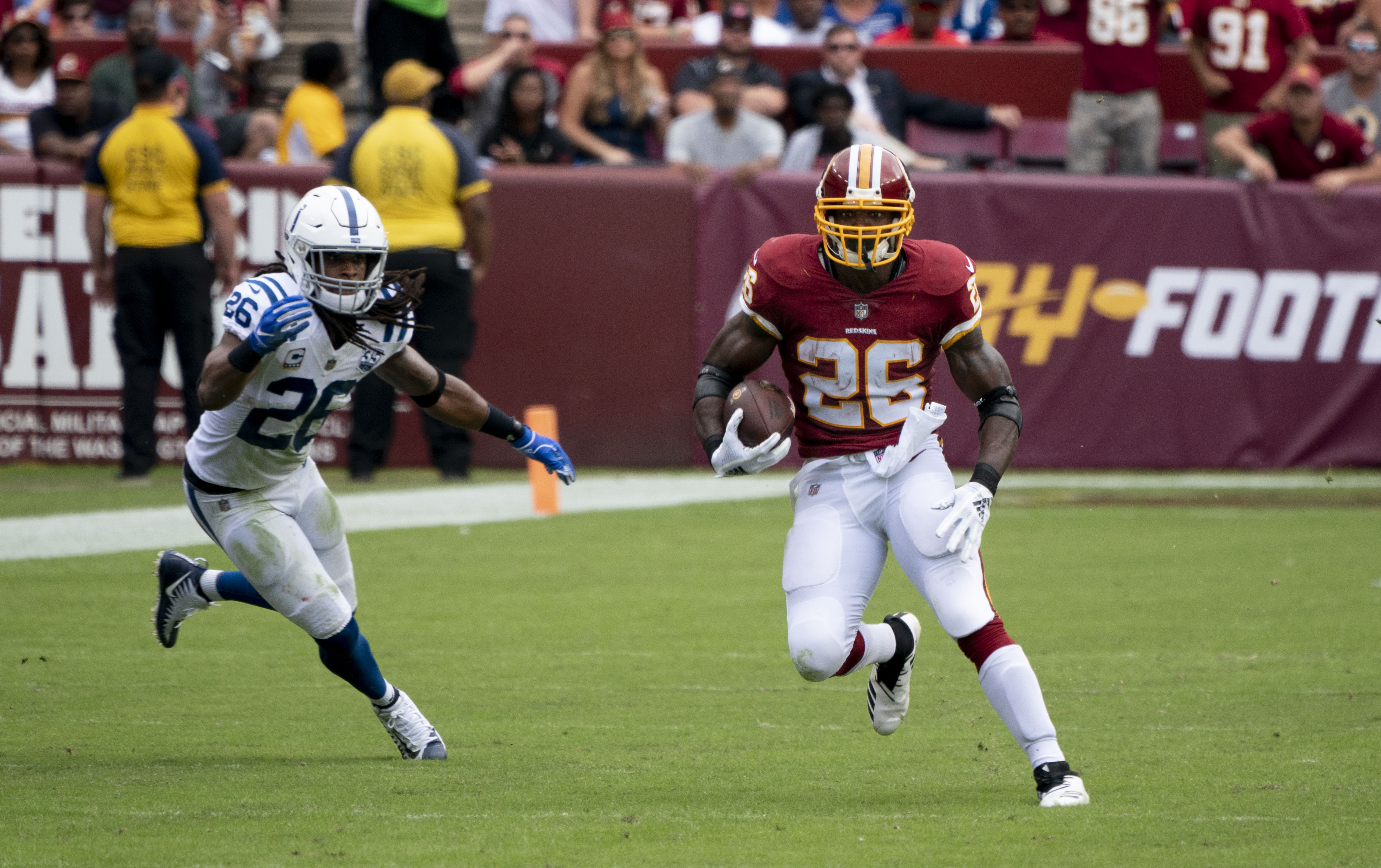 Colts at Redskins 09/16/18